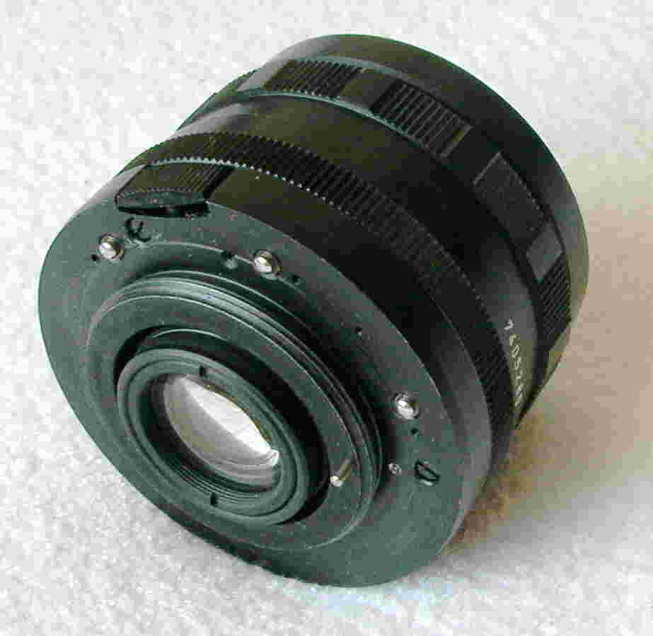 Objektiv Pentacon electric 2.8/29, Kontaktseite / electrical contacts of the objective Pentacon electric 2.8/29